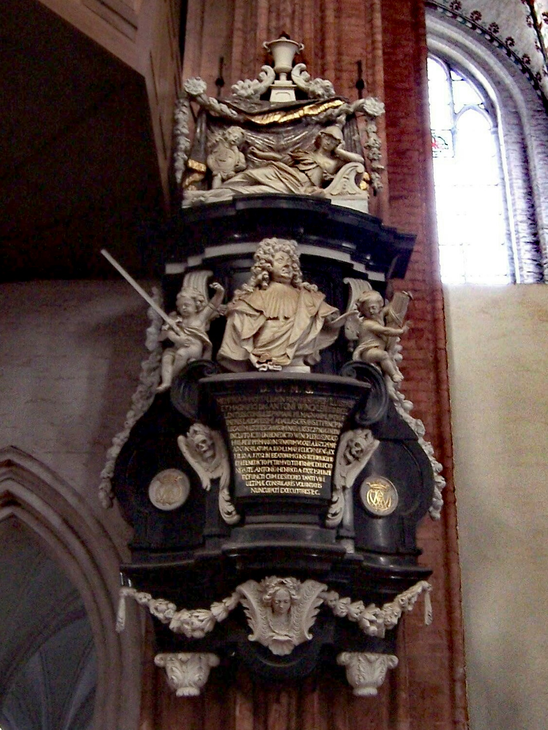 Epitaph of Anton Winckler (1657-1707), mayor and church warden, sculpted by Thomas Quellinus, St. Marien, Lübeck